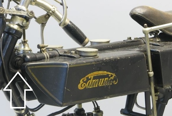 Edmund 1919 motorcycle hinged top frame tube